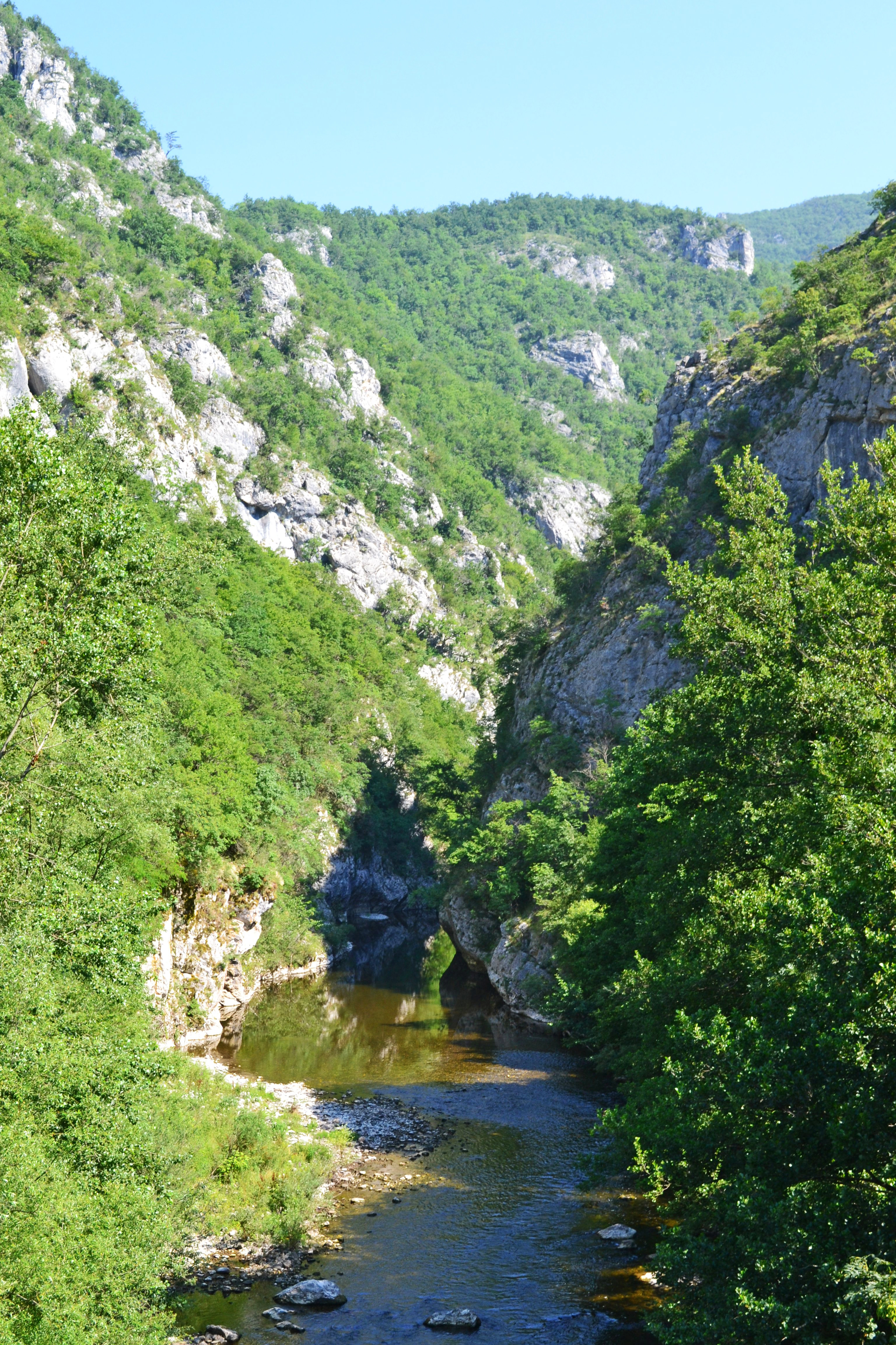 Srpskohrvatski / српскохрватски: This image was uploaded as part of Trace of Soul 2015.